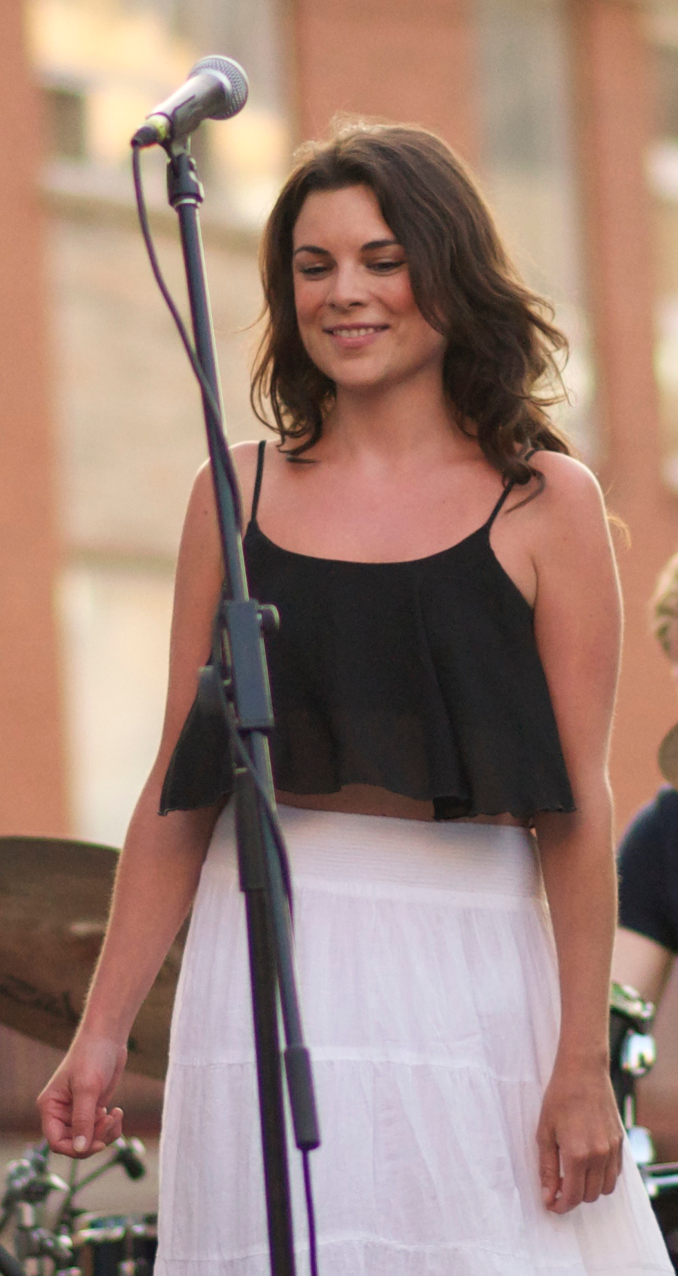 Whitney Rose at NXNE in Toronto in 2014